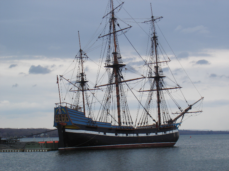 Photo of the the replica of the Hector at Pictou, Nova Scotia, Scotia. The Hector carried Scottish settlers to Canada in 1773.